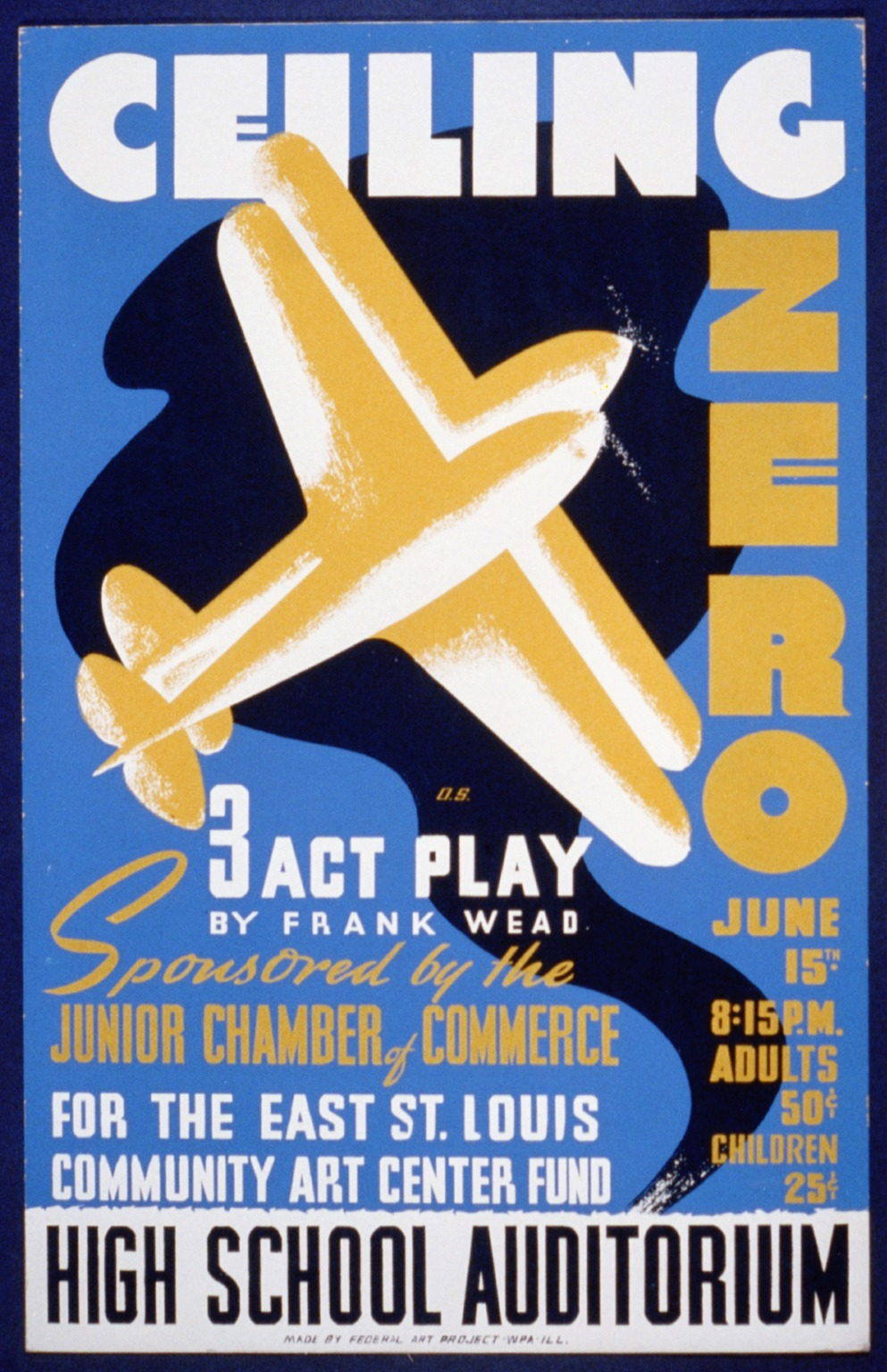 Title: Ceiling zero Abstract: Poster for presentation of "Ceiling Zero" at the high school auditorium, showing two planes flying in close formation. Physical description: 1 print on board (poster) : silkscreen, color. Notes: Date stamped on verso: Jun 22 1939.; Work Projects Administration Poster Collection (Library of Congress).; D.S.